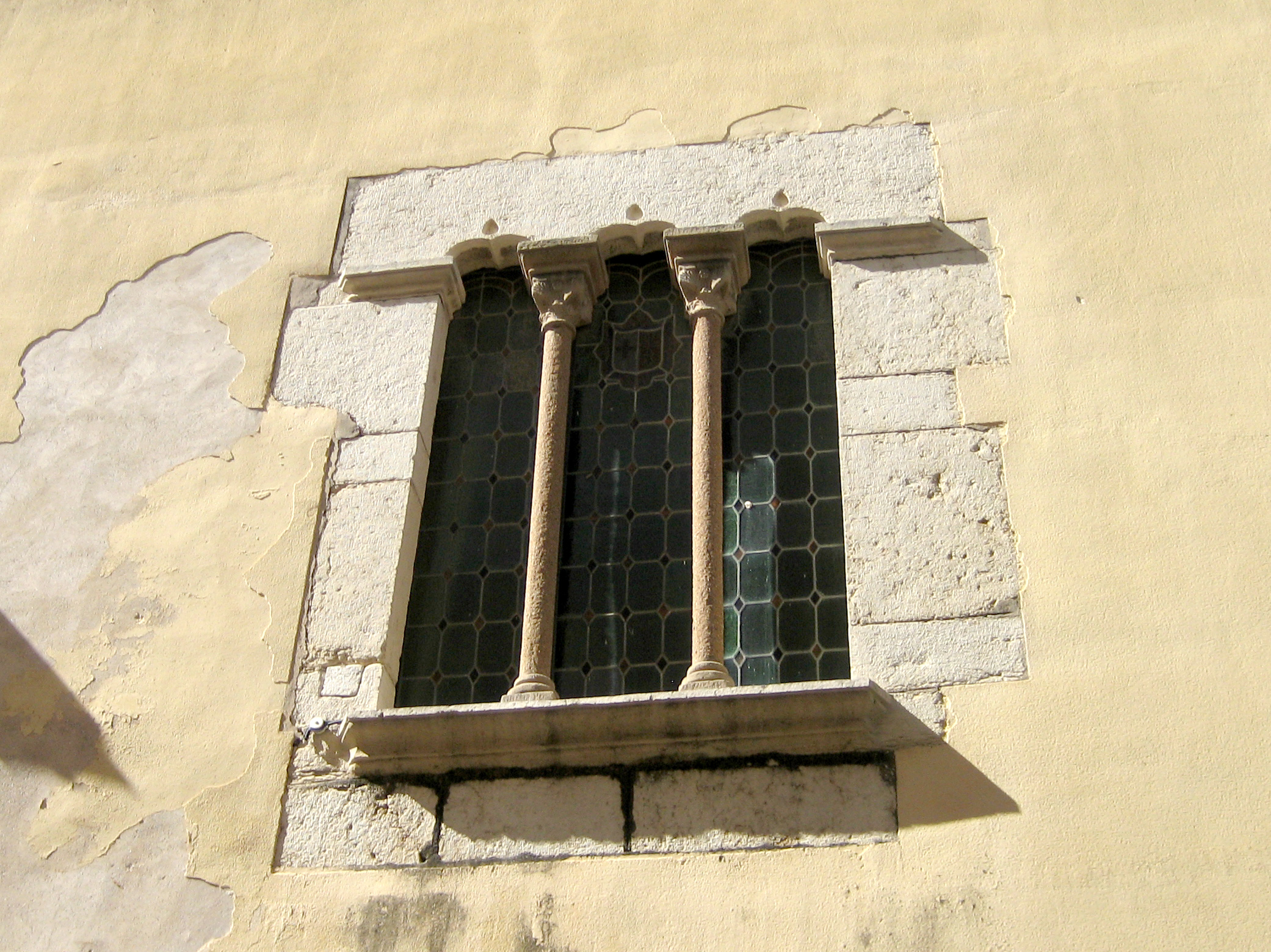 Gothic window of the former town hall, Benicarló (Spain)